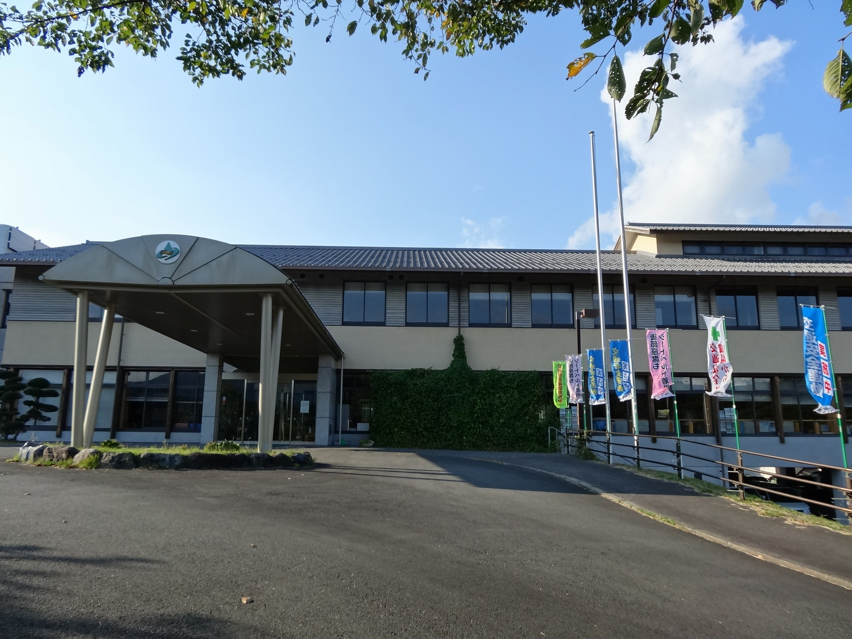 Yamato Town Office Seiwa Synthesis Branch (Former Seiwa Village Office - Kumamoto Prefecture, Japan)